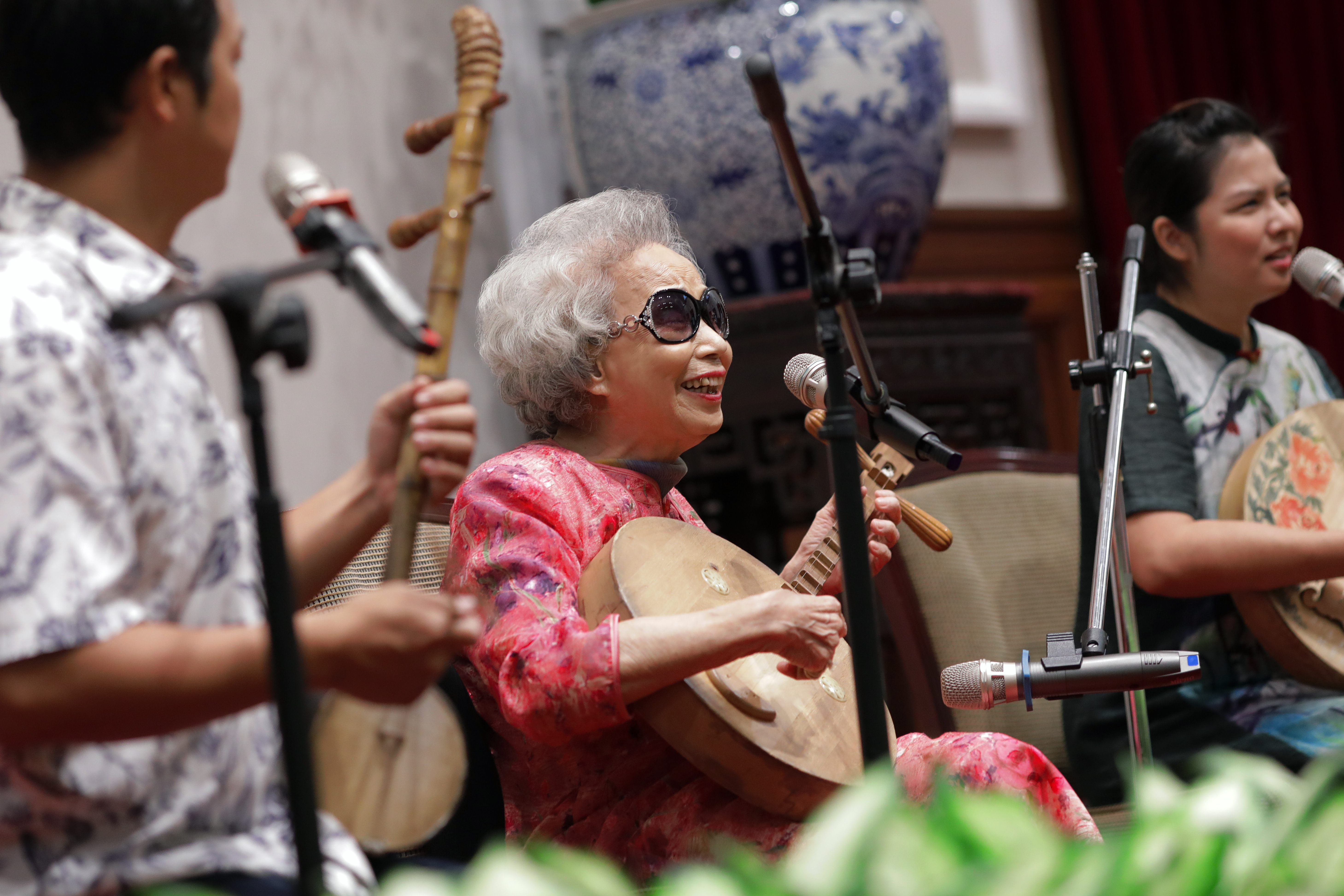 授權方式及範圍：中華民國總統府│政府網站資料開放宣告 Authorization Method & Scope: Office of the President, Republic of China (Taiwan) | Government Website Open Information Announcement